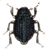 Georissus laesicollis, from Calwer's Käferbuch, Table 16, Picture 25. Taxonomy was updated to 2008, using mostly the sites Fauna Europaea and BioLib. Please contact Sarefo if the determination is wrong!